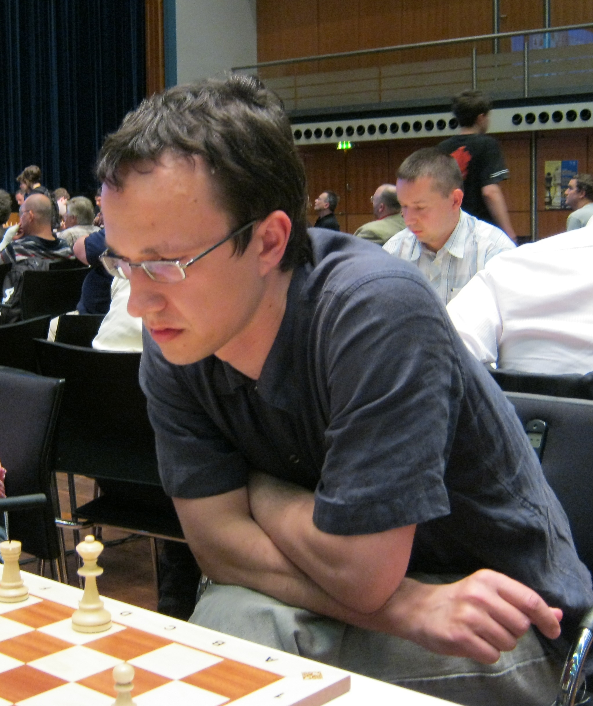 Vadim Zvjaginsev, Russian chess grandmaster, at Mainz Chess Classic